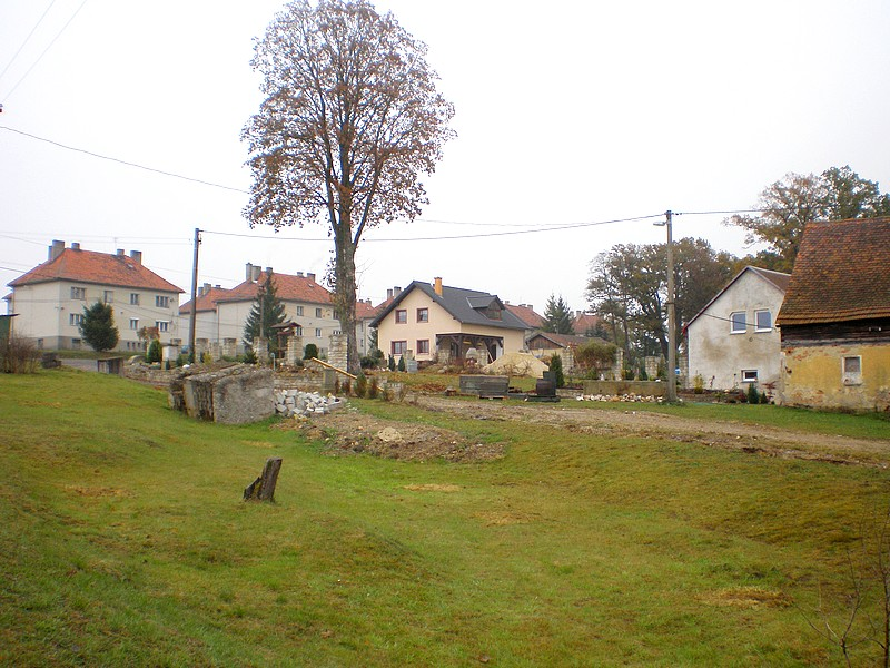 Okrouhlá, Cheb District, Czech Republic